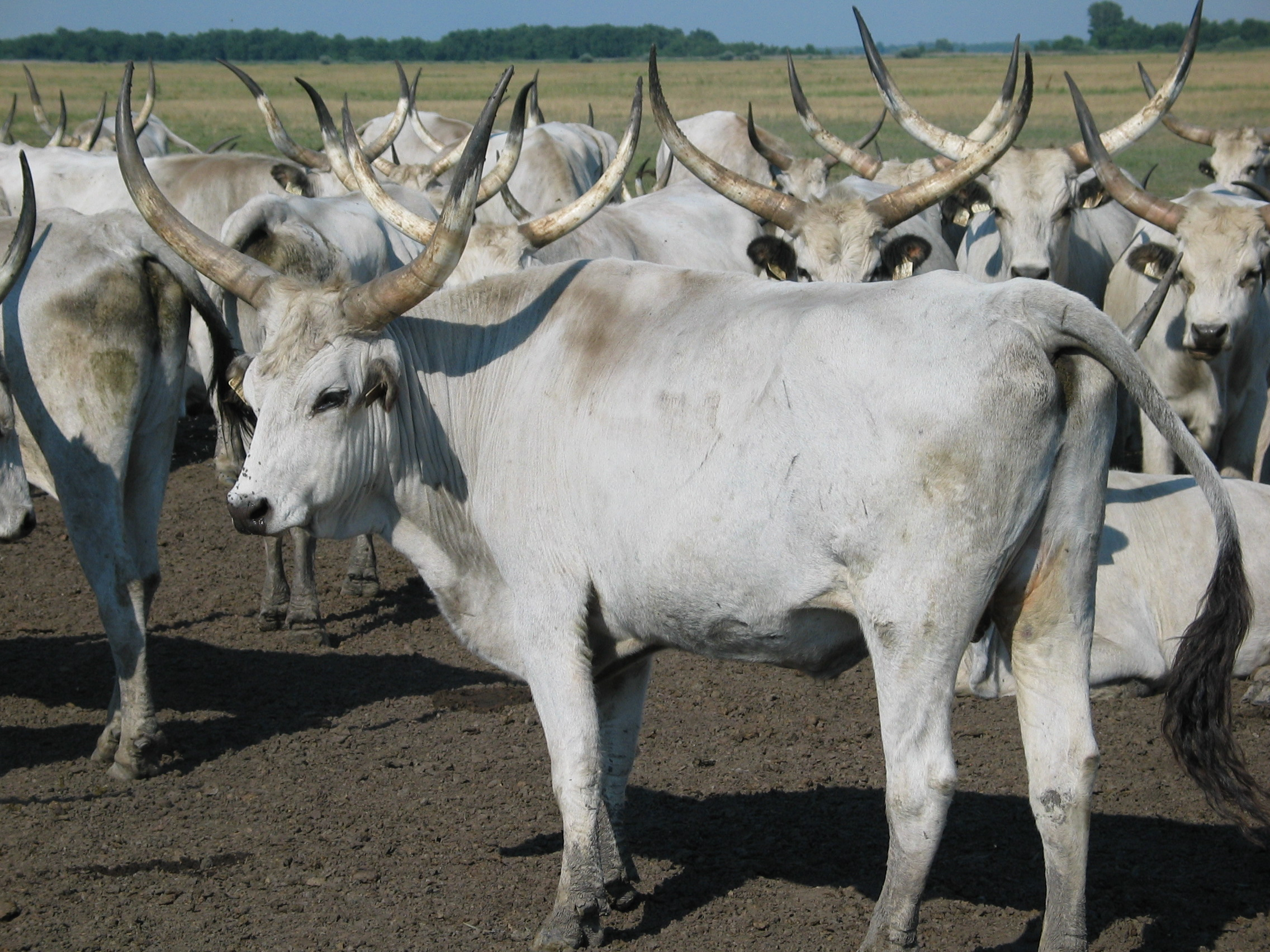 Hungarian Grey cows in Hortobágy National Park, Hungary.